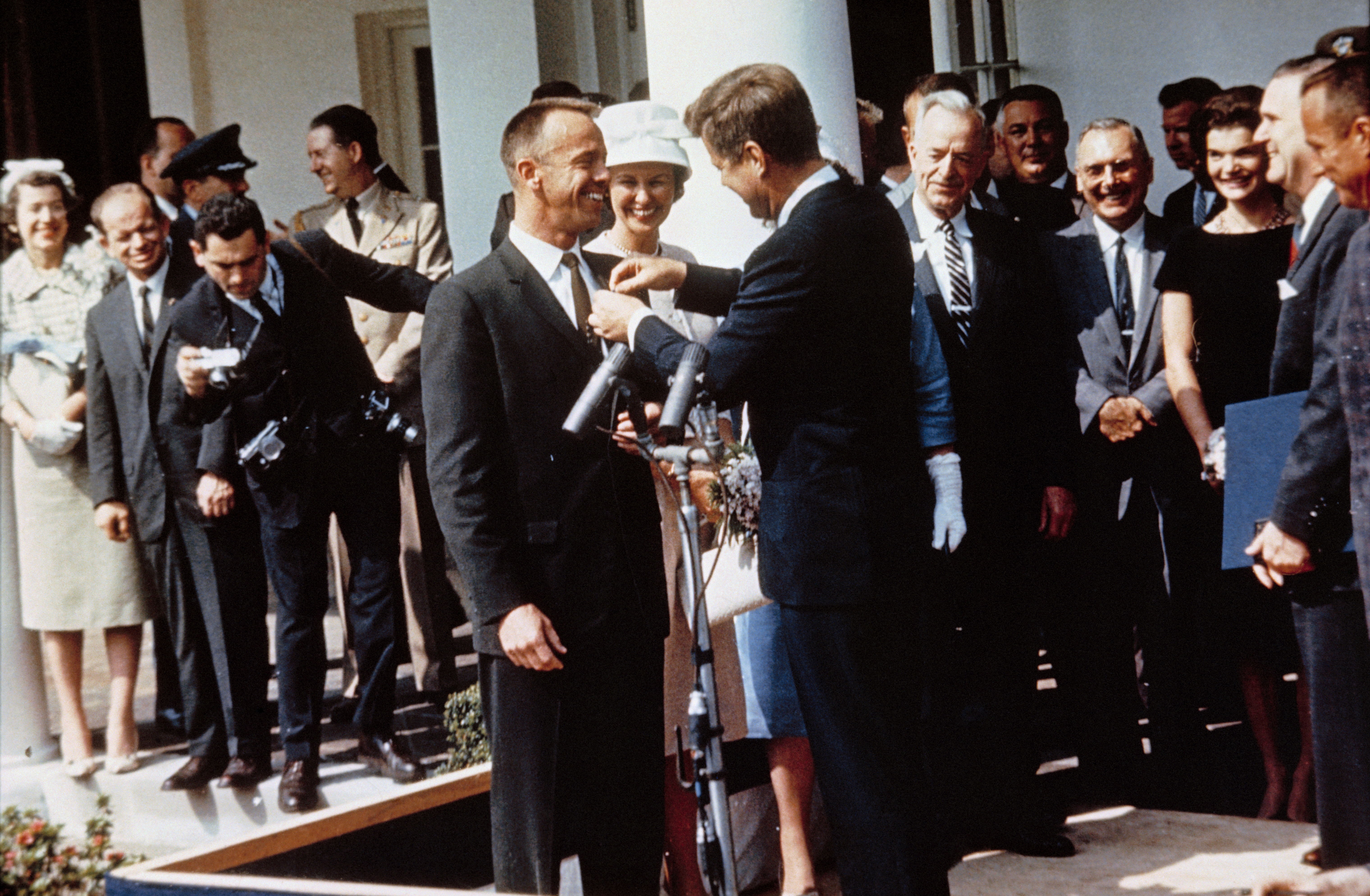 President John F. Kennedy (right) pins NASA's Distinguished Service Medal on the jacket of astronaut Alan B. Shepard Jr. after MA-3 flight in a Rose Garden ceremony on May 8, 1961. Mrs. Kennedy and Mrs. Shepard are among those seen in the background.